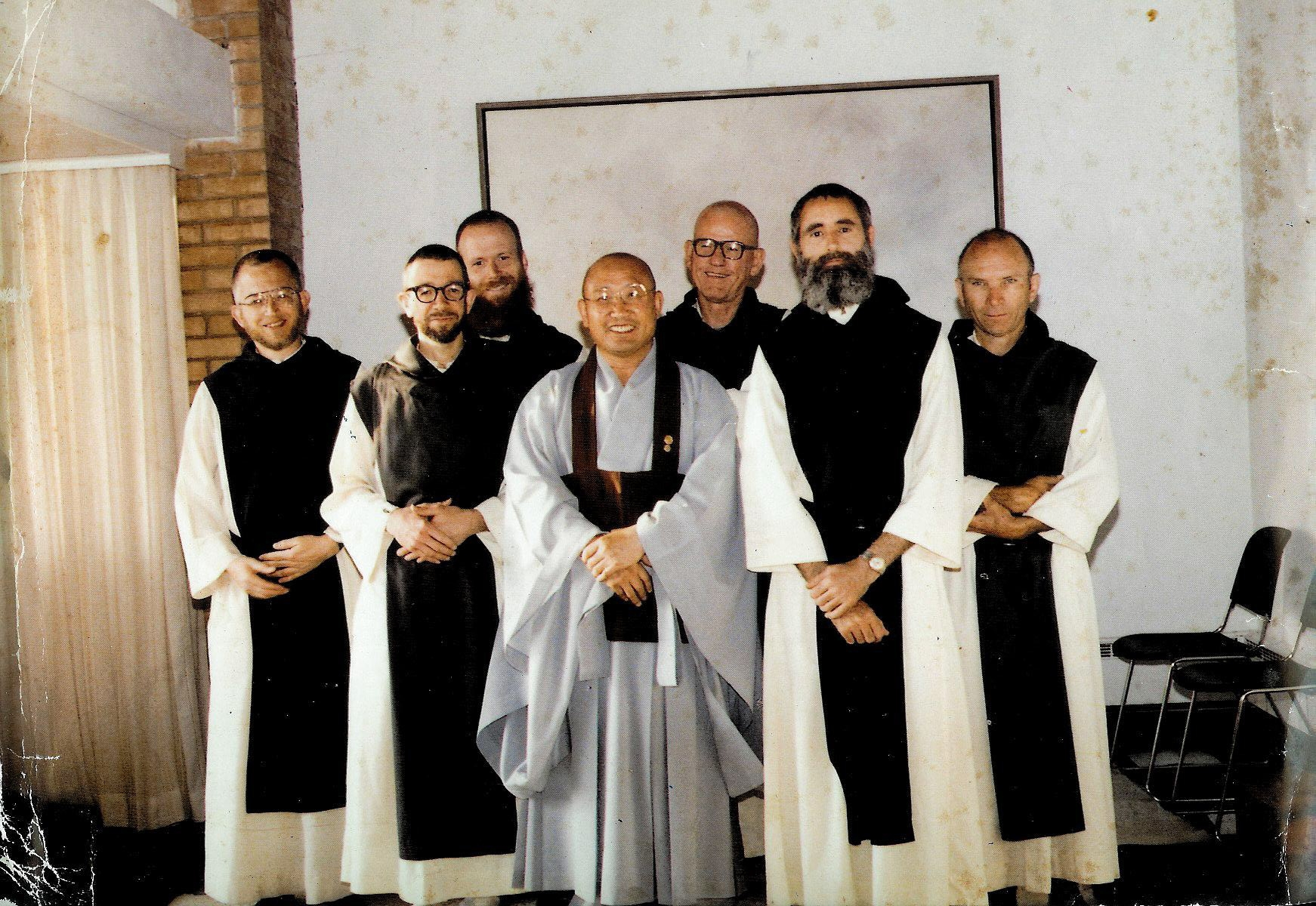 Dae Soen Sa Nim (ZM Seung Sahn) with monks from Our Lady of Gethsemani